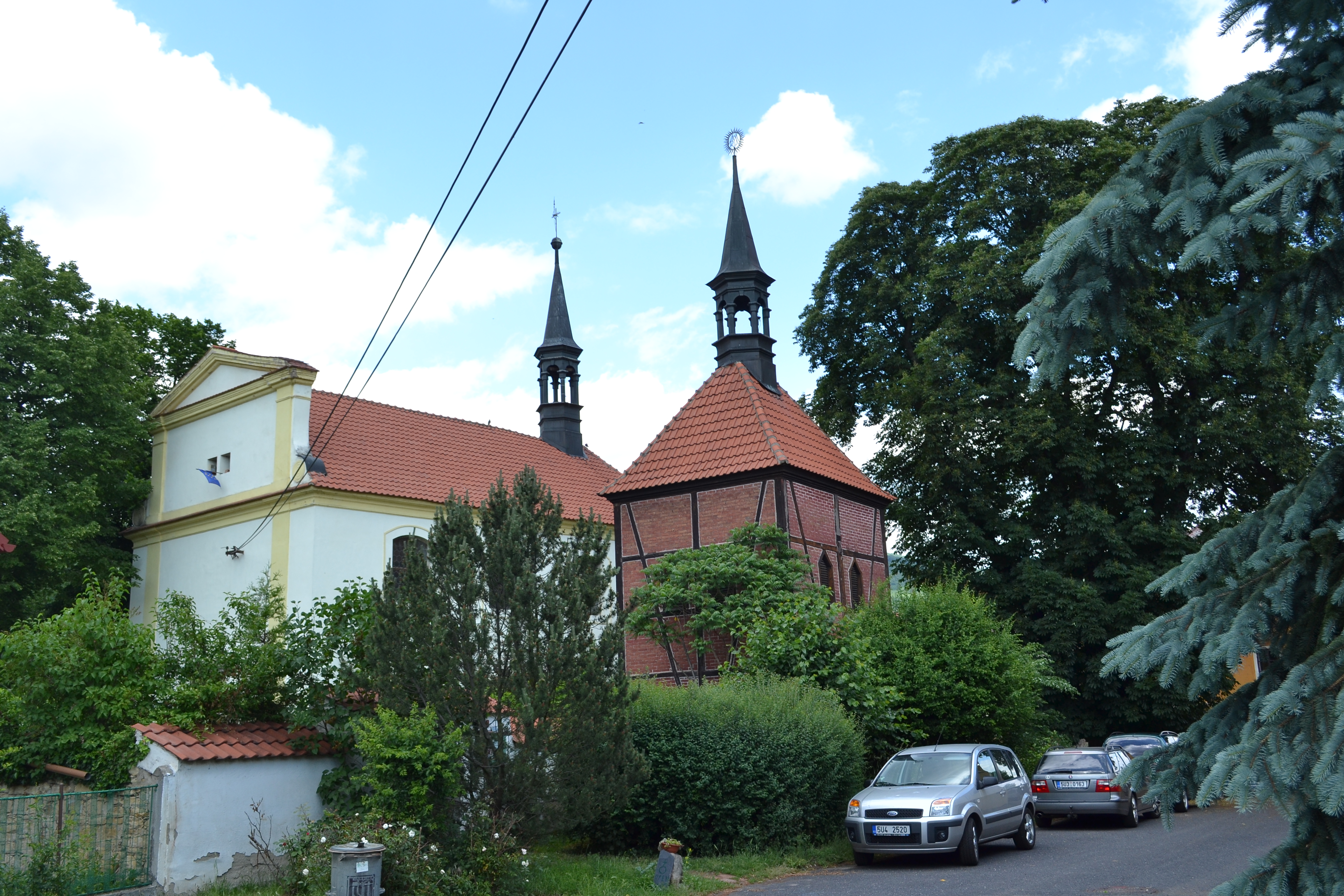 Church of the Assumption and a bell tower in Církvice, Ústí nad Labem, Czech Republic.